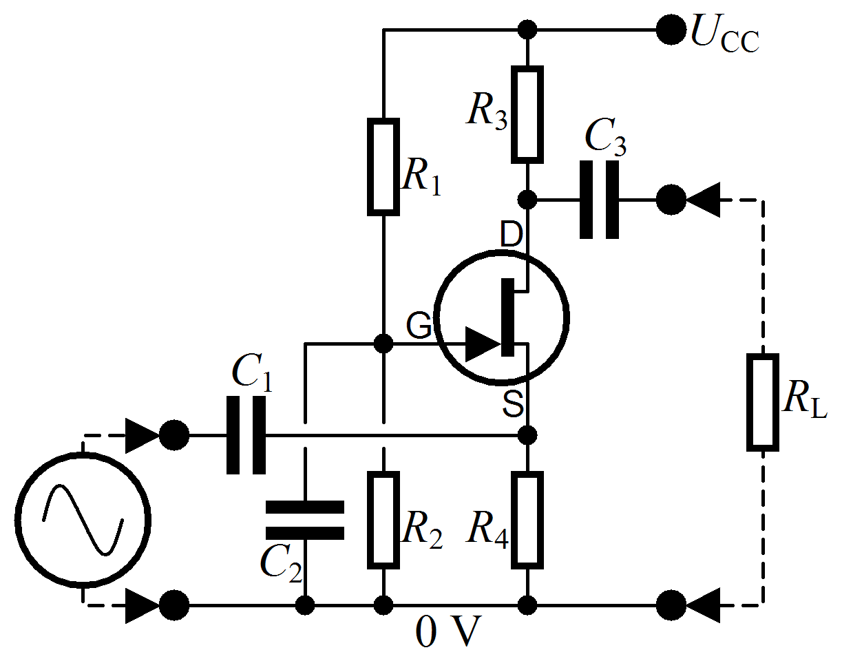 Diagram of Common Gate amplifier stage, utilizing a Field Effect Transistor (FET) Drawn using the "Autoshape" feature in MS Word '97, then converted to PNG in a graphics application